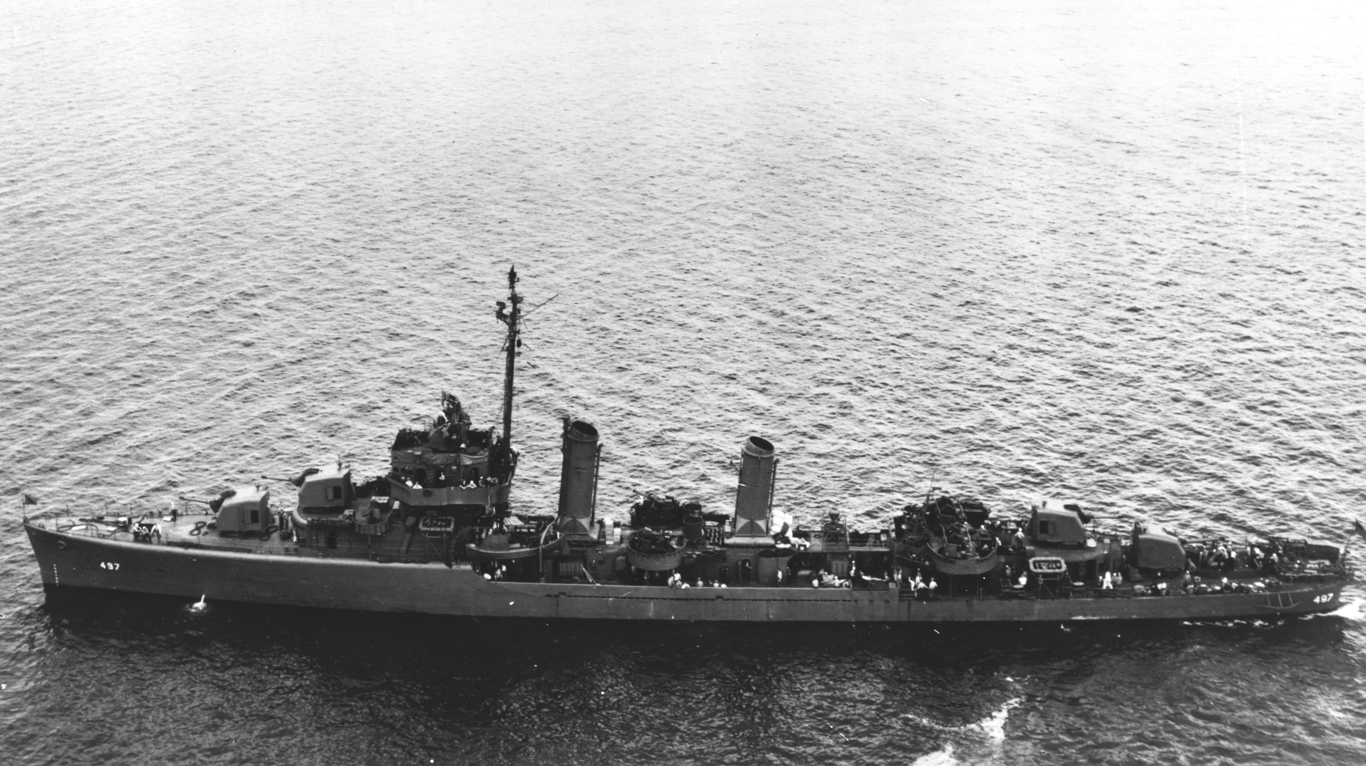 The U.S. Navy destroyer USS Frankford (DD-497) at anchor in the New York Harbor area, 19 June 1945, after removal of her torpedo tubes and installation of an enhanced battery of 40 mm guns.